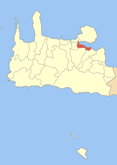 Locator map of Souda municipality (Δήμος Σούδας) in Chania prefecture (Νομός Χανίων) in Greece.